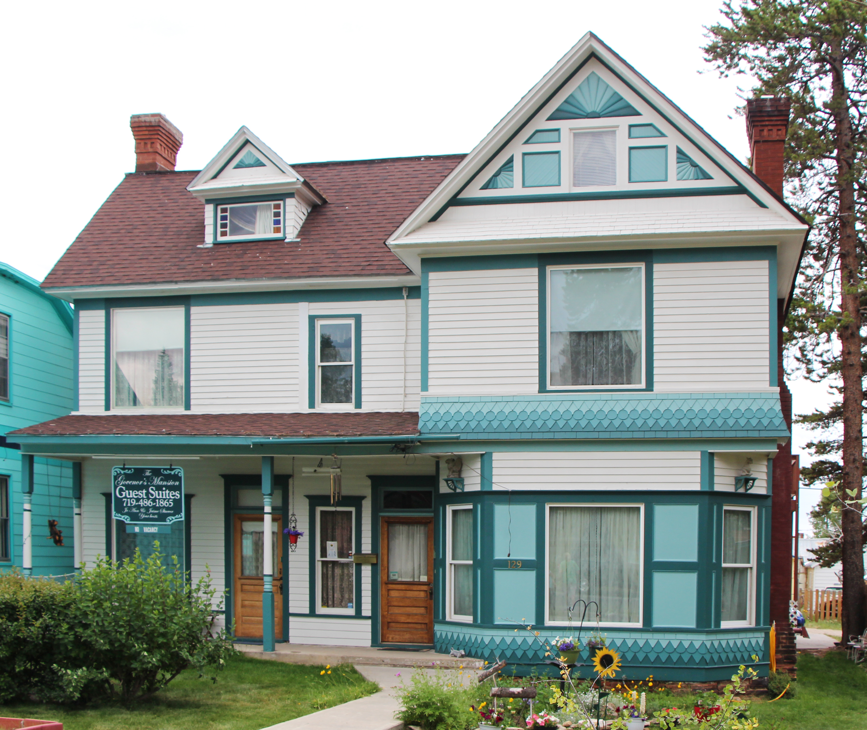 Jesse McDonald House, 128 W. 8th St., Leadville, CO